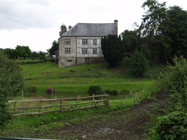 Hergest court, near to Lower Hergest, Herefordshire, Great Britain.